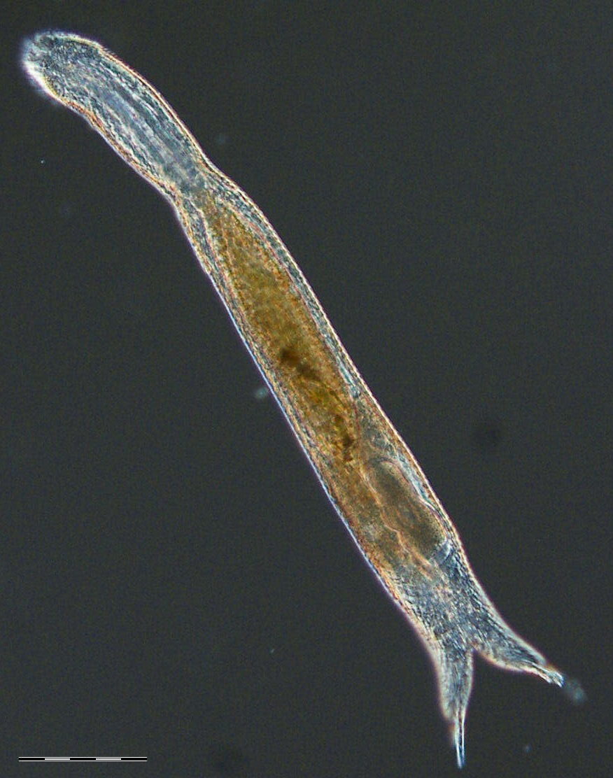 Differential interference contrast (DIC) microscopy of the dorsal view of the chaetonotid gastrotrich 'Diuronotus aspetos'. Scale bar = 100µm.